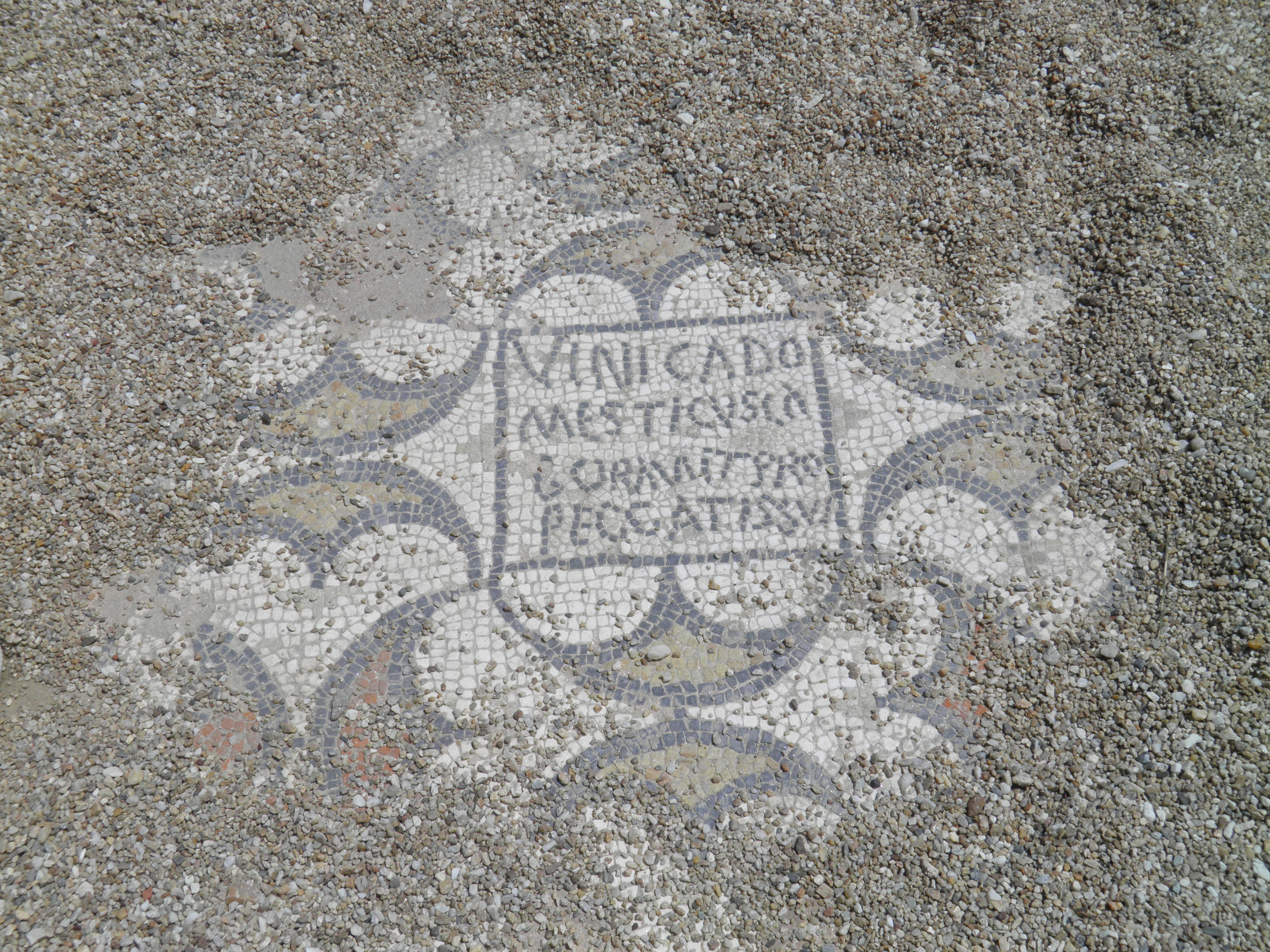 Heraclea Lyncestis, Republic of Macedonia